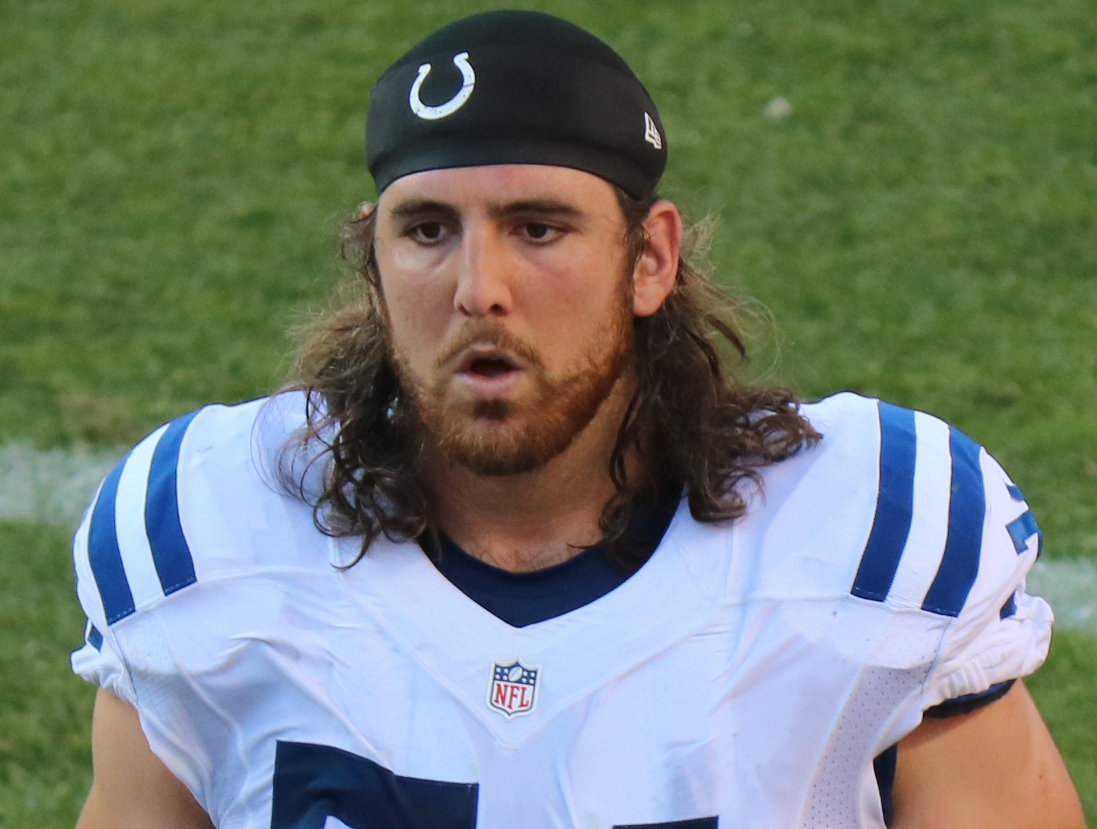 Anthony Castonzo, a player on the National Football League.